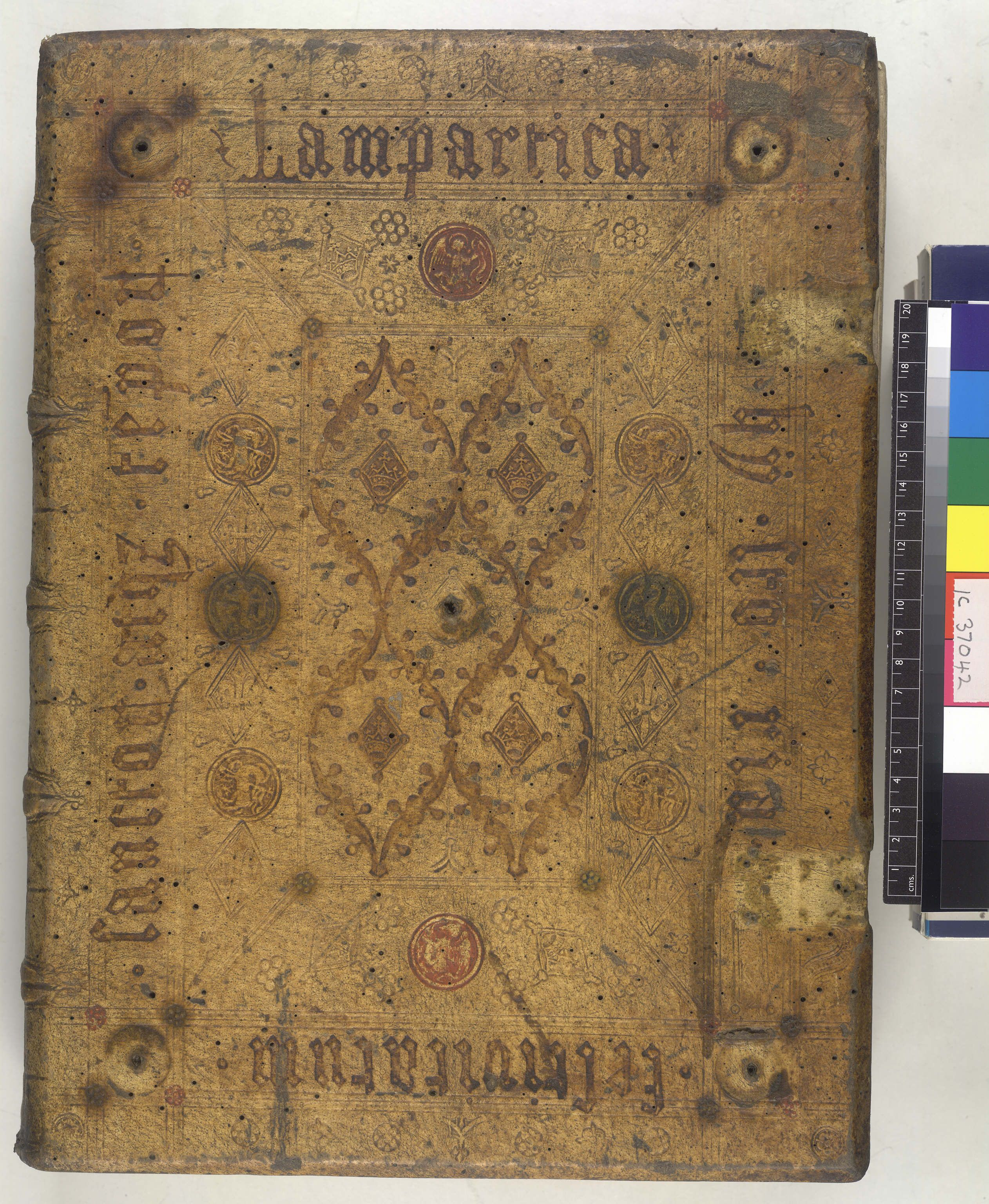 Style: Lettered cover, eg intitals, titles|Single tools design; Caption: Upper cover; Colour: White / cream; Edge: Unspecified